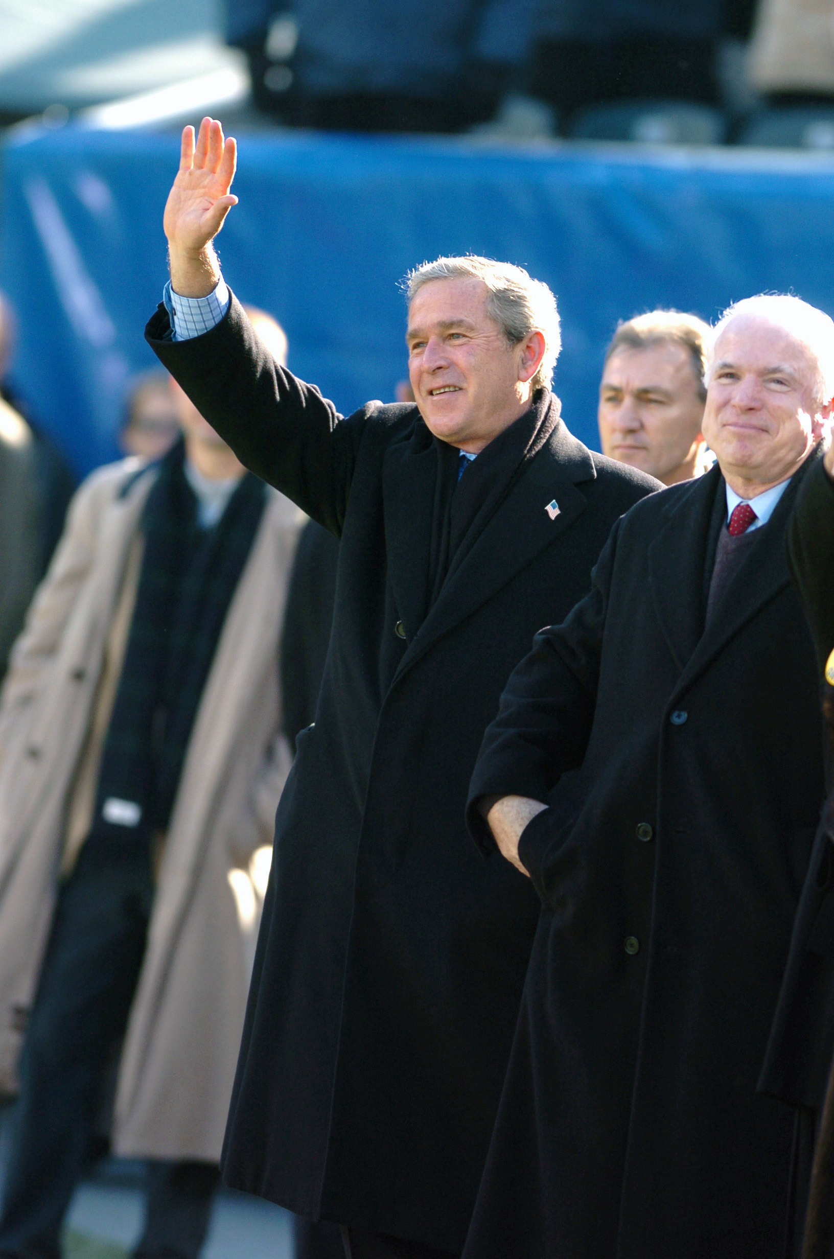 US President George W. Bush, accompanied by Senator John McCain (R-AZ), waves to spectators from the Navy goal line during opening ceremonies for the 105th Army vs. Navy game. Location: PHILADELPHIA, PENNSYLVANIA (PA) UNITED STATES OF AMERICA (USA)